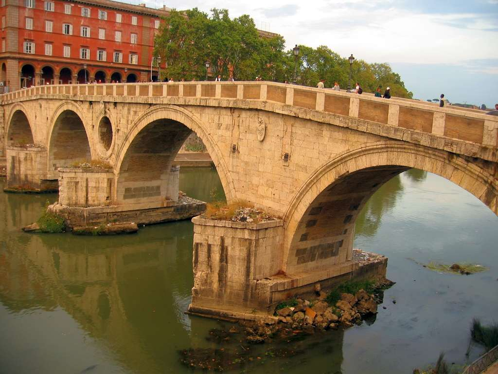 Ponte Sisto, Rome, Italy, 2007.